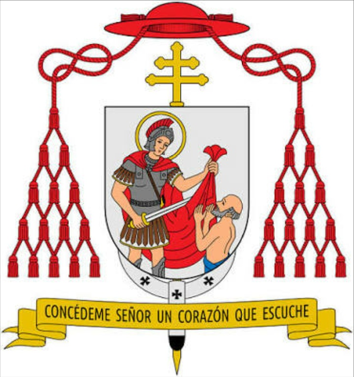 sign